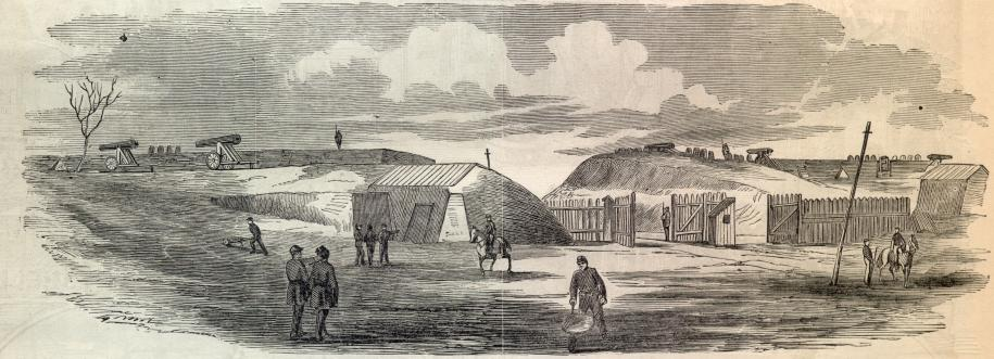 Sketch of Fort Runyon, a Civil War fortification protecting Washington, D.C. Published in Harper's Weekly, November 30, 1861.